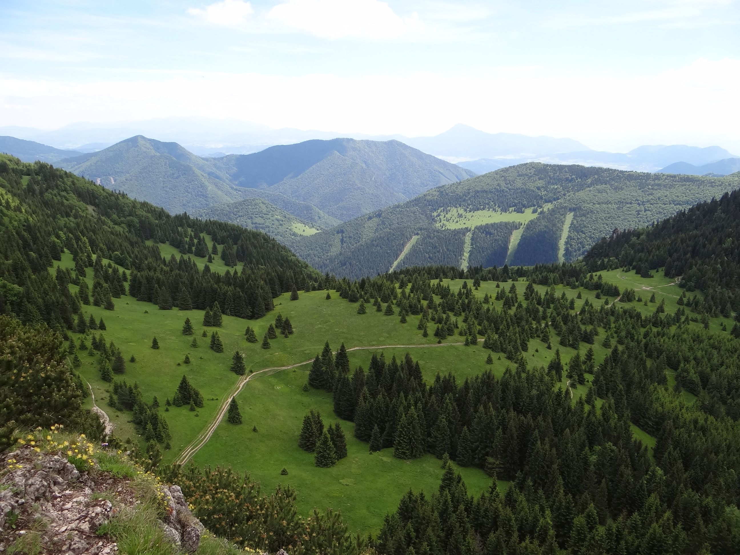 Medzirozsutce. View from Malý Rozsutec